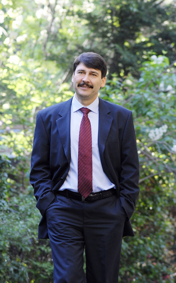 Janos Ader, Hungarian lawyer and politician, who currently serves as President of Hungary since May 10, 2012.